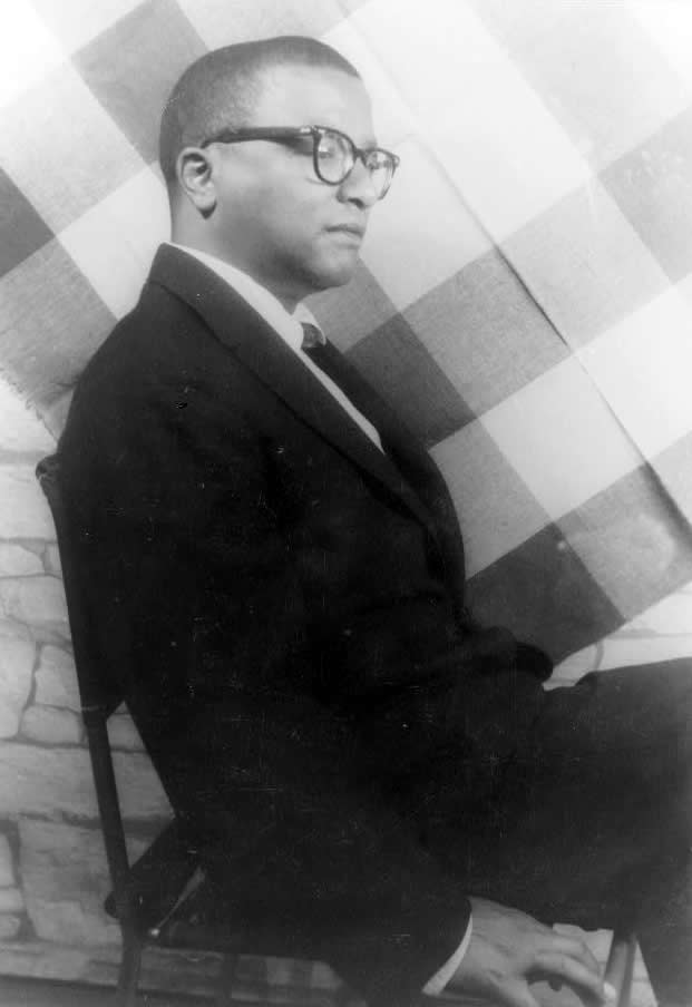 Billy Strayhorn on 14 Aug 1958